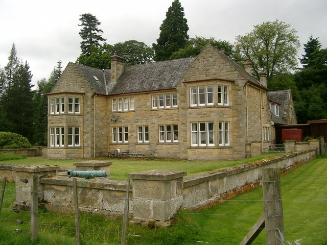 Moy Hall - or a part of it. Taken during the annual Moy Country Fair, a three-day display of events, activities and "country pursuits" attended by large crowds. Near to Moy, Highland council area, Scotland.